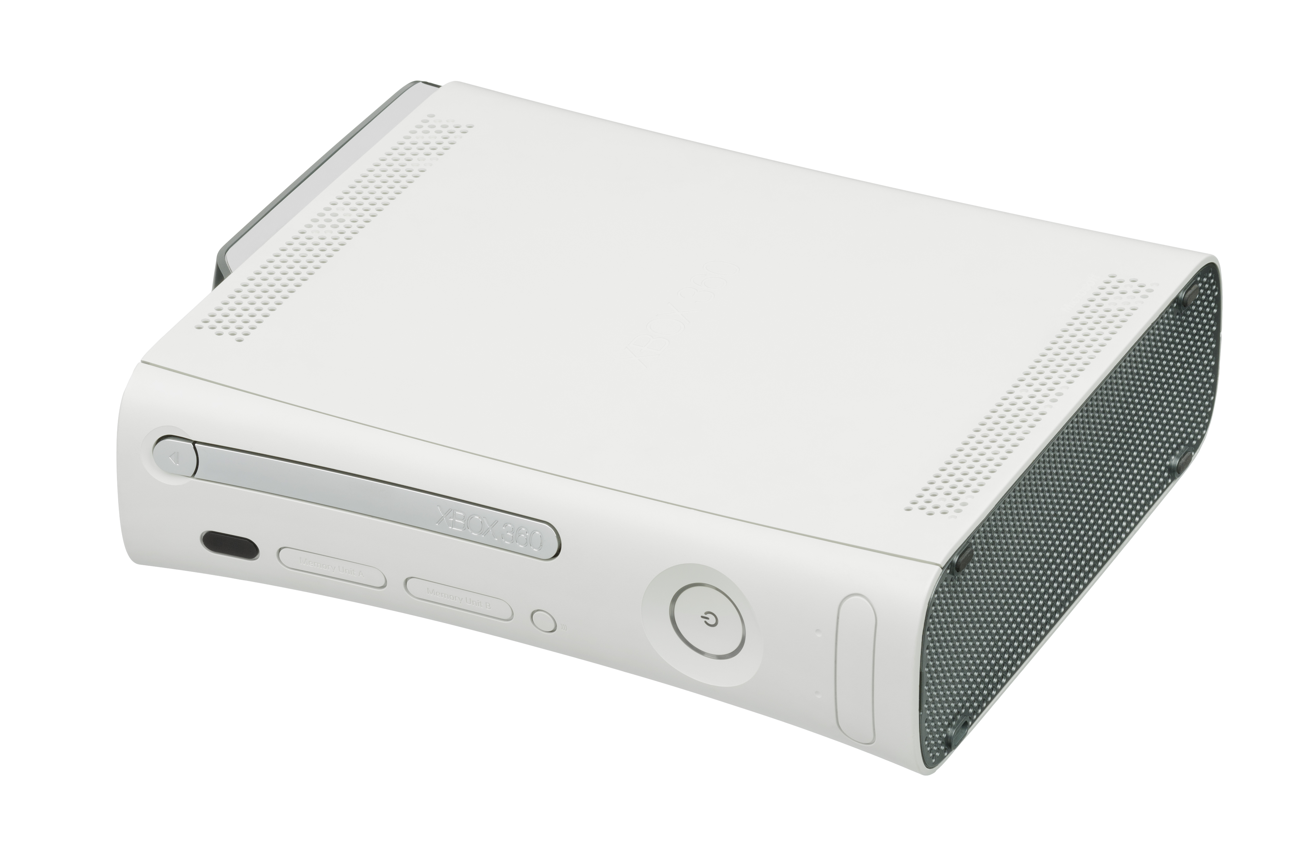 The Xbox 360, a video game console made by Microsoft and released in 2005. This is the very first model, a launch-edition of the "Pro", which included a 20GB hard drive and a silver DVD drive bezel.